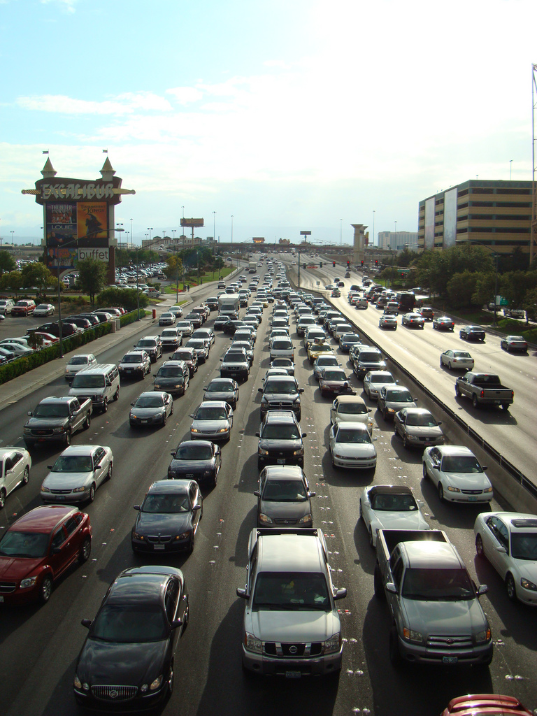 Traffic in Las Vegas, Nevada. View looking west along Tropicana Avenue (Nevada State Route 593) from a pedestrian overpass at the intersection with the Las Vegas Strip.